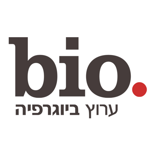 Biography Channel